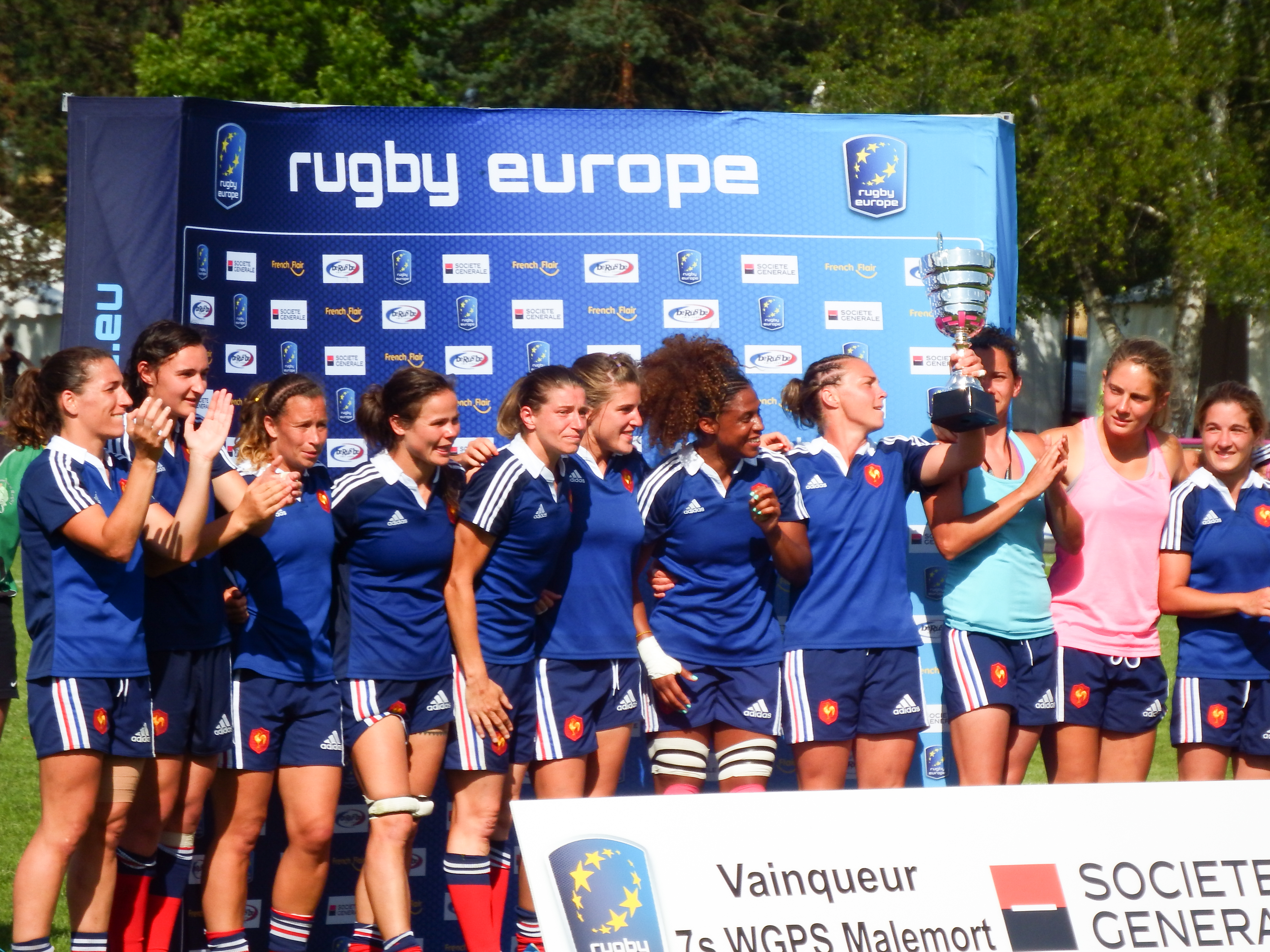 Malemort Sevens 2015 — 21 June 2015, stade Raymond-Faucher. Match between: France — Spain